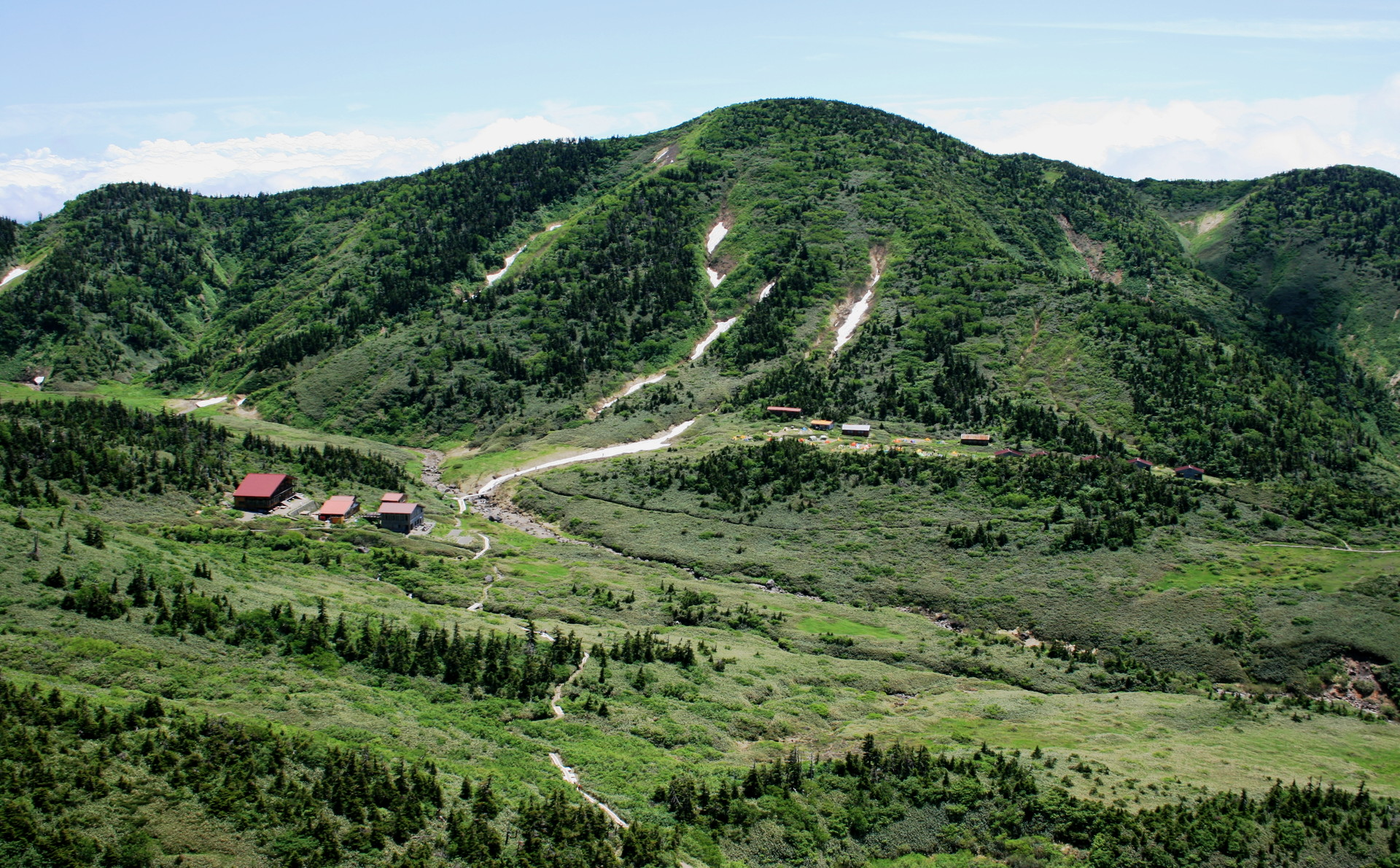 Nanryu_hut in Mount Haku in Ryōhaku Mountains, Japan.